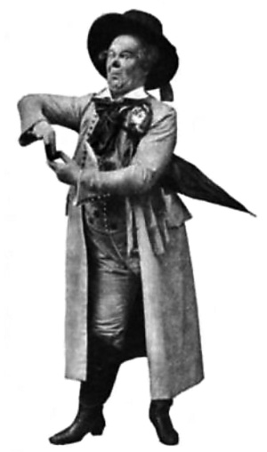 Photograph of opera singer, Otto Gortiz, in the role of Kezal for The Bartered Bride